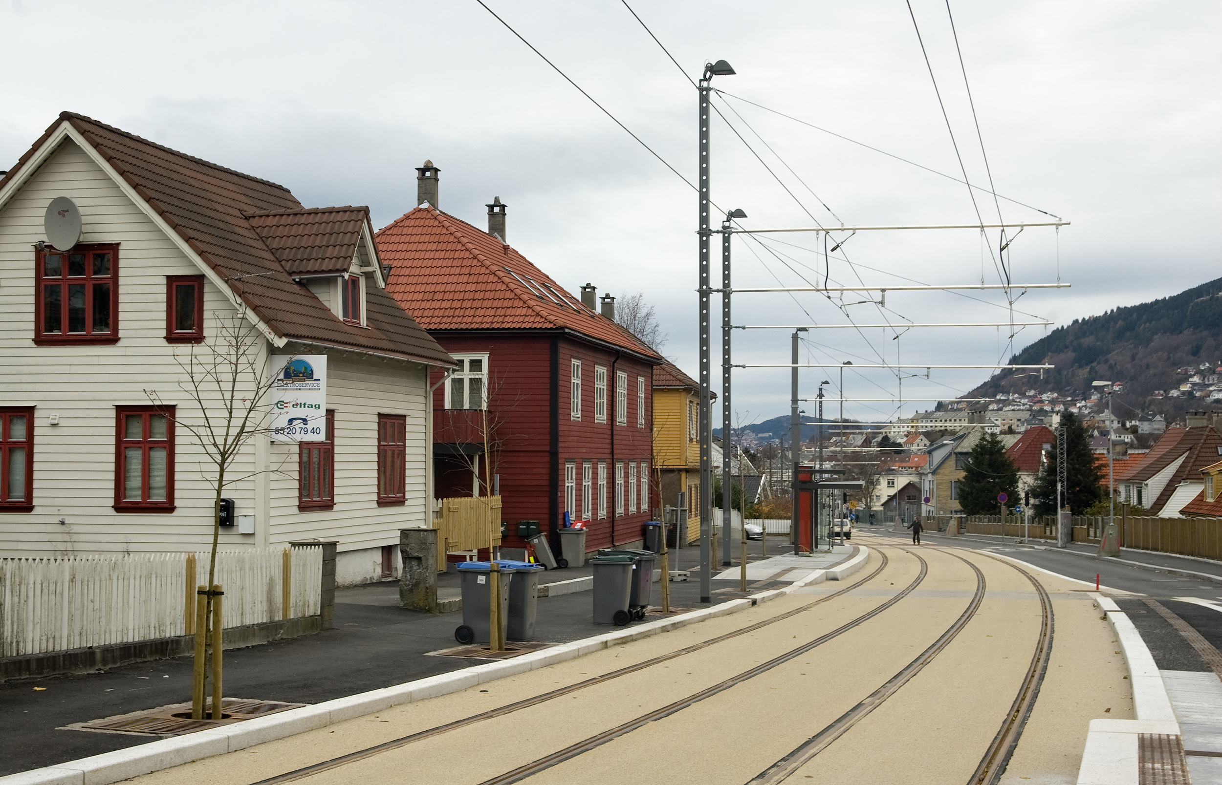 Bergen Light Rail under construction in Inndalsveien, Bergen, Norway.